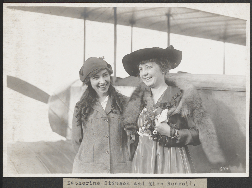 Katherine Stinson (left) and Miss Russell. Physical Description: 1 photographic print: gelatin silver, part of 1 volume (312 gelatin silver prints); 12 x 17 cm on 28 x 38 cm mount